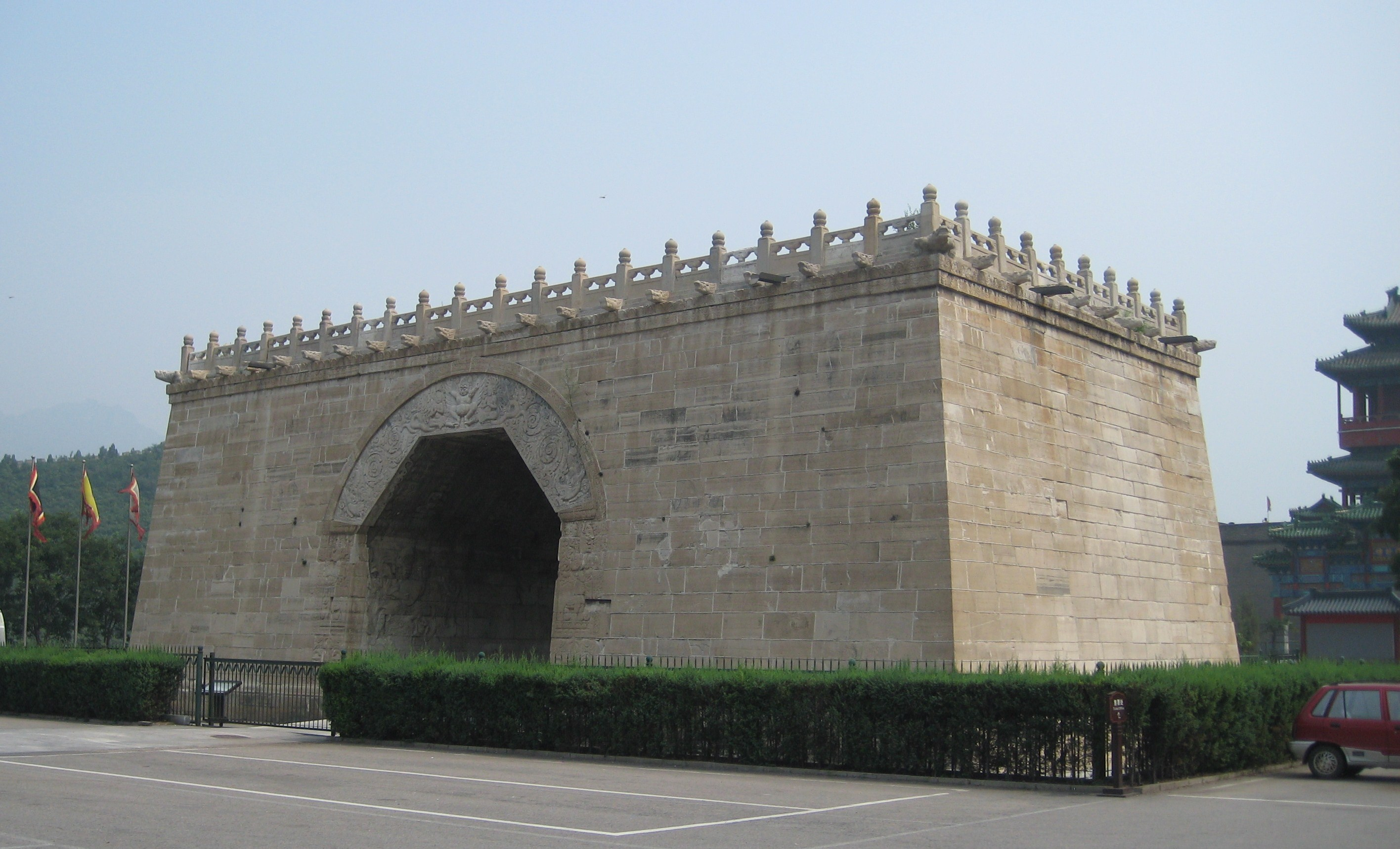 North side of the Cloud Platform at Juyongguan (居庸關雲台), Beijing China. Built 1342.